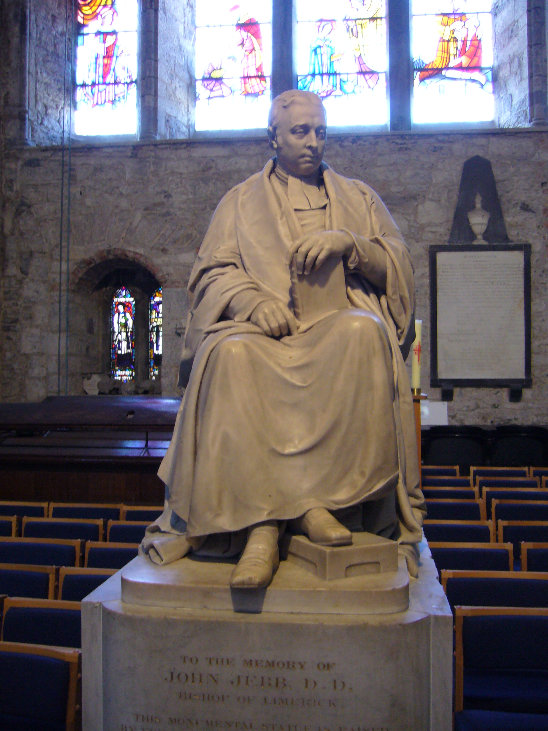 John Jebb statue inside St. Mary's Cathedral in Limerick, Irlande